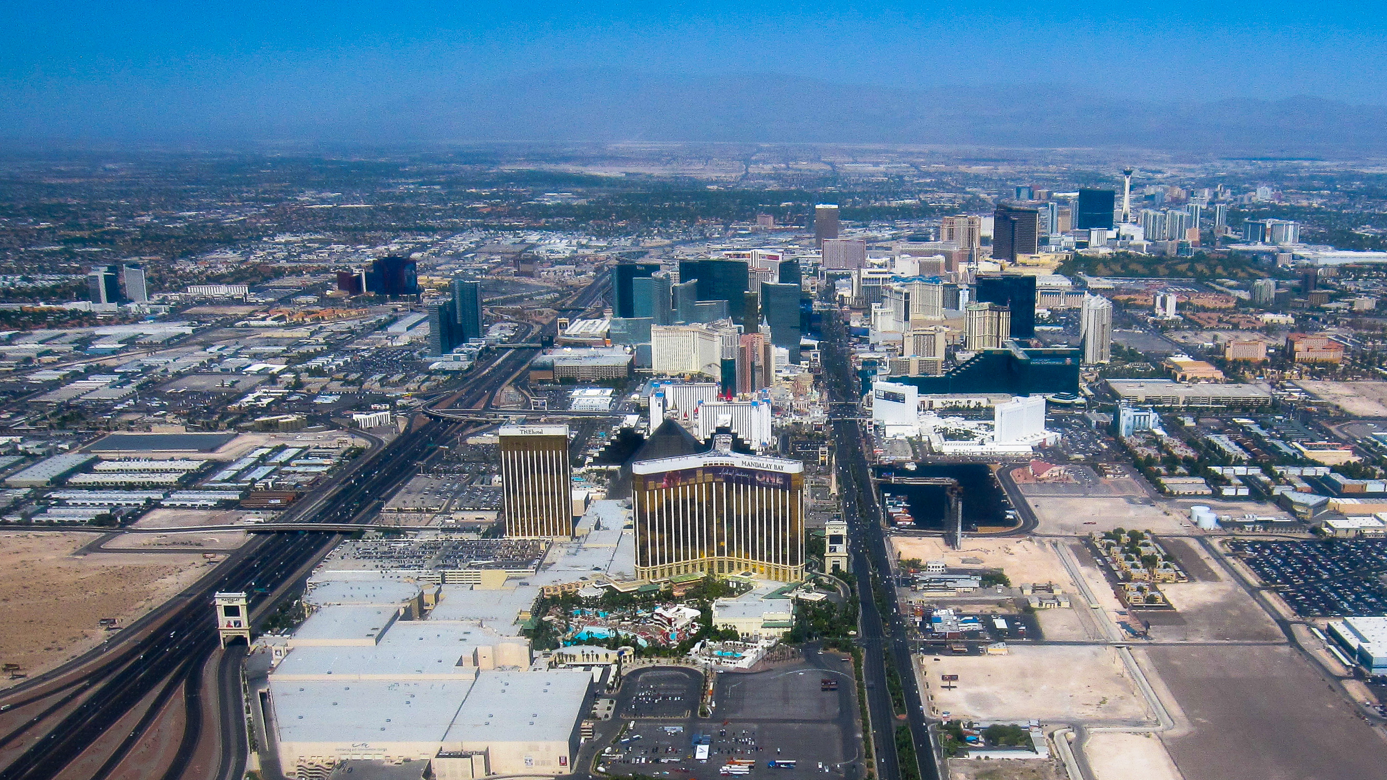 Aerial photo of the entire Las Vegas Strip Looking North in September, 2013